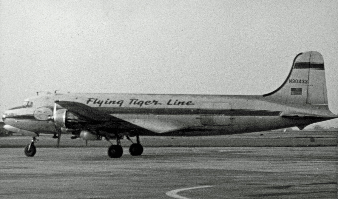 Douglas C-54A Skymaster N90433 of Flying Tiger Line at Manchester (Ringway) Airport